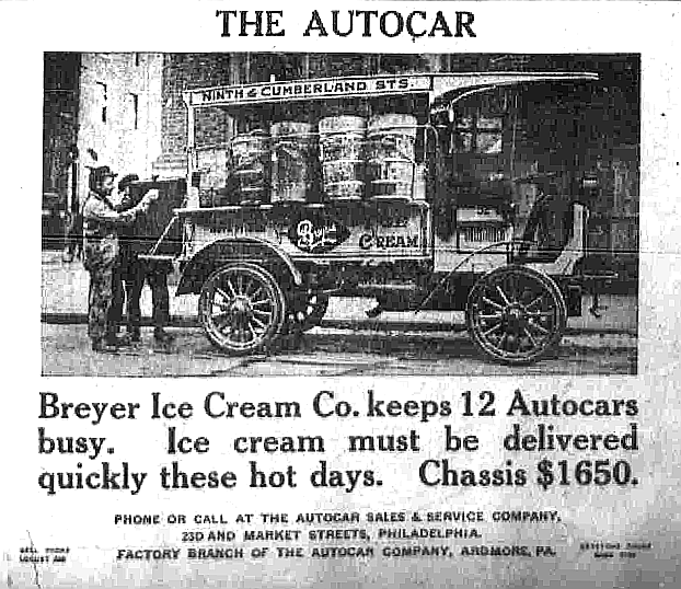 Autocar truck, owned by the Breyer ice cream company.